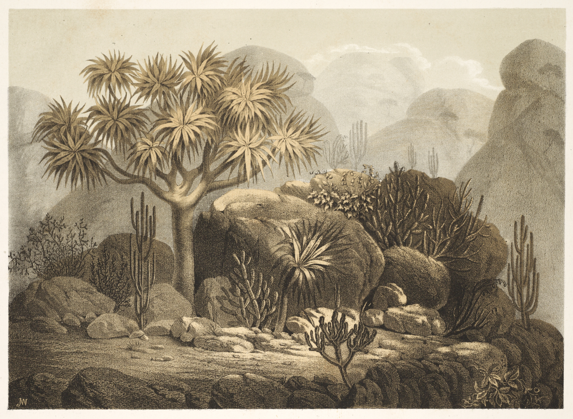 Preface. It is indicated on page 47 in the section describing Dracaena ombet, that the image of the plant can be seen in the preface written by John A. Tinne (Vide imaginem in capite praefationis Tinneanae).